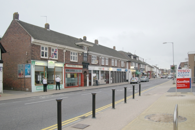 Lymington Road, Highcliffe The seaward side of Lymington Road, Highcliffe, Dorset.